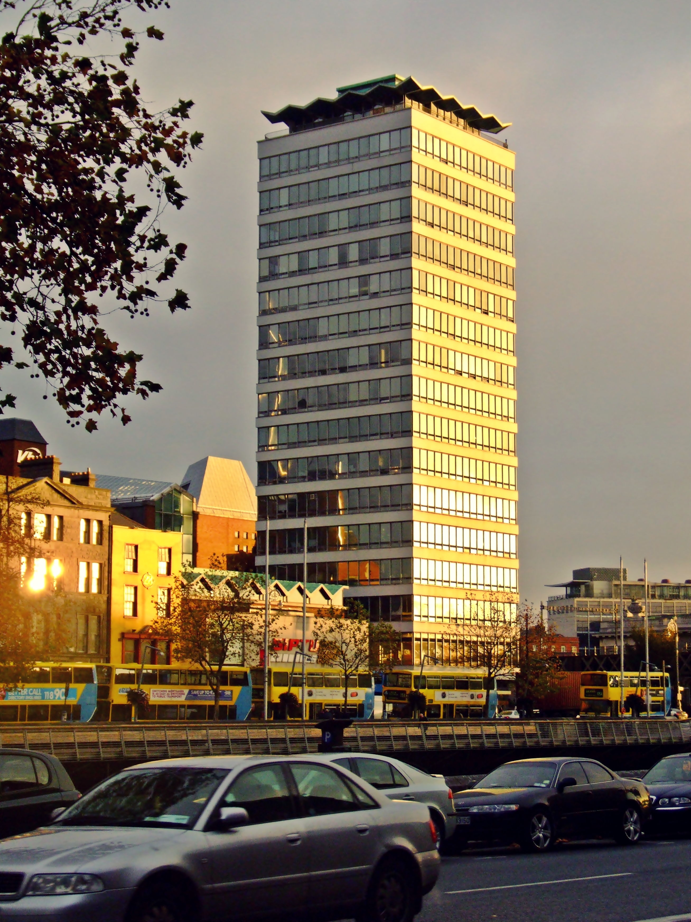 Photo of Liberty Hall, Dublin, Ireland. Headquarters for the SIPTU Union